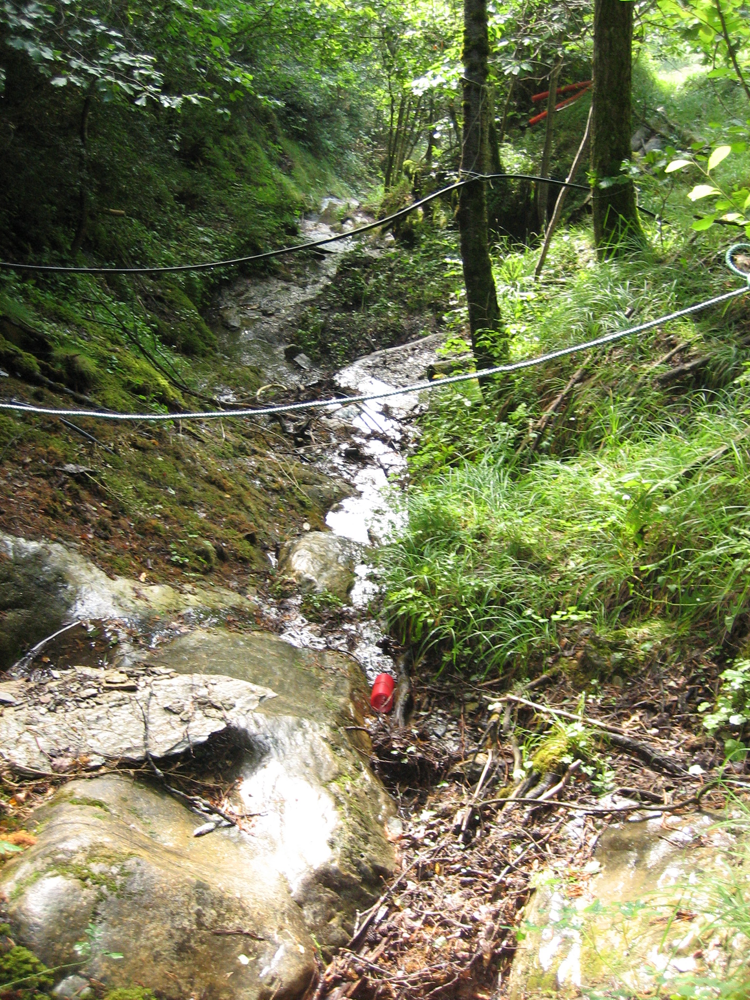 Riu de Padern river, Anyós, La Massana, Andorra